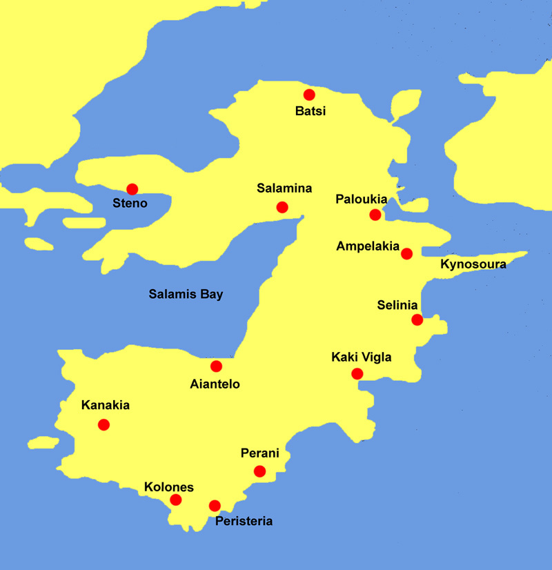 Work of Gordonofcartoon: outline hand-traced from public domain NASA satellite image, Cities Collection, Athens, STS077-704-94.